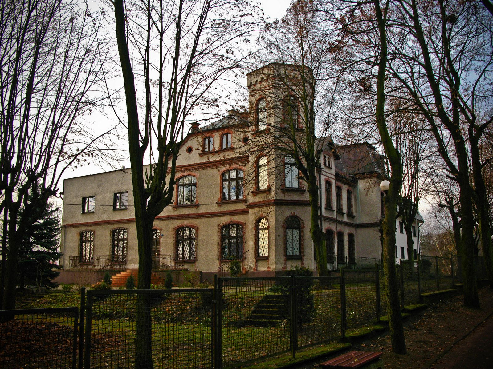 Curia